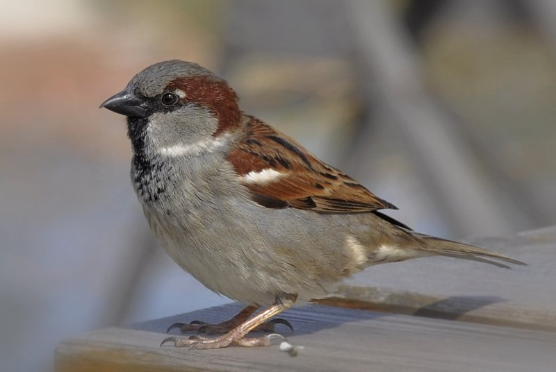 A male House Sparrow in Germany